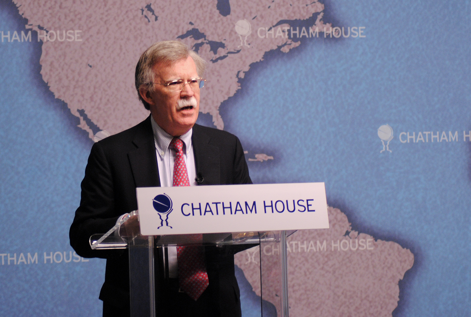 Foreign Policy Challenges for the Obama Administration, 21 January 2013